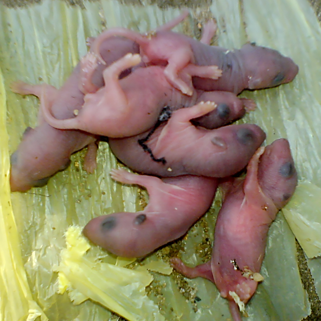 Baby mice about a day old